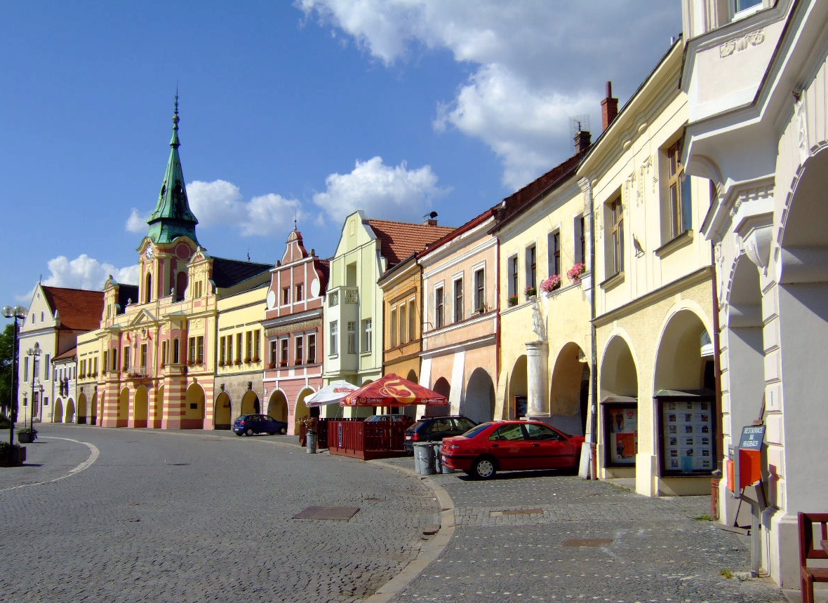 NE side of the Peace Square in Mělník, the centre of the town. In the backgrund the historical town hall. Aufnahme: 3. Juli 2006 Url